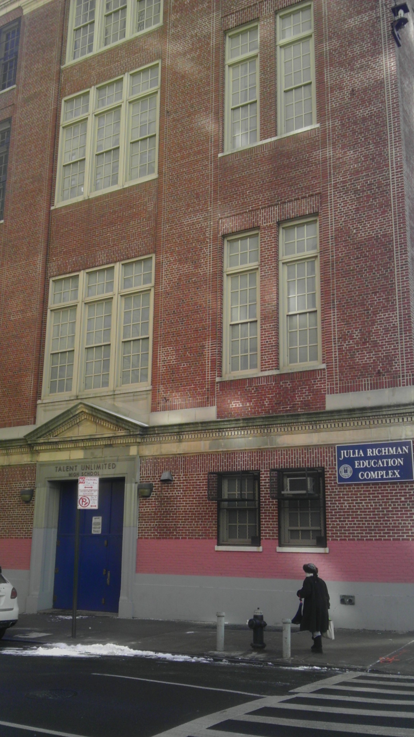 Looking south at Talent Unlimited High School on a cloudy day.